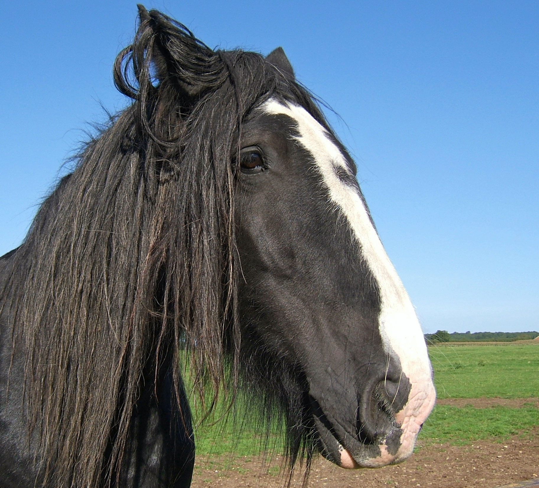 Head of a Shire horse